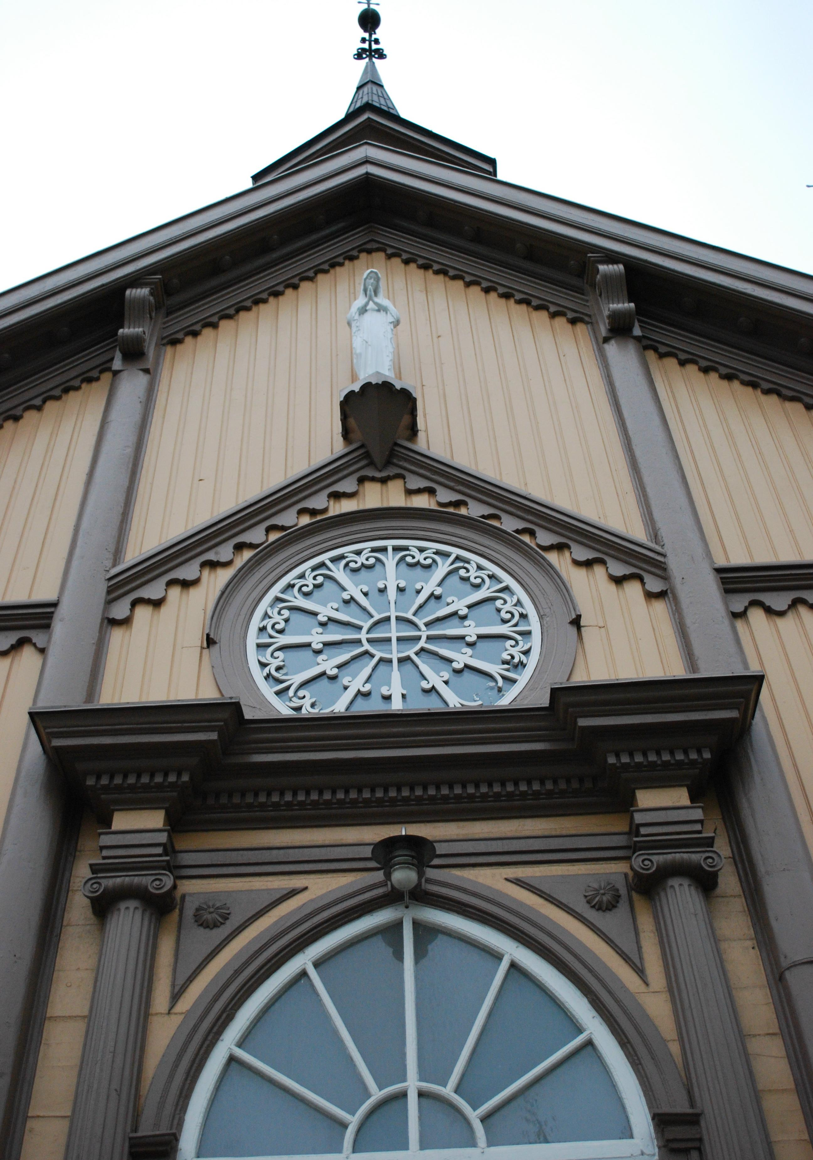 Front of the Our Lady Cathedral of Tromsø, the world's northernmost Catholic cathedral